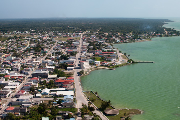 Corozal, looking north. Chetumal, Mexico is on the horizon.